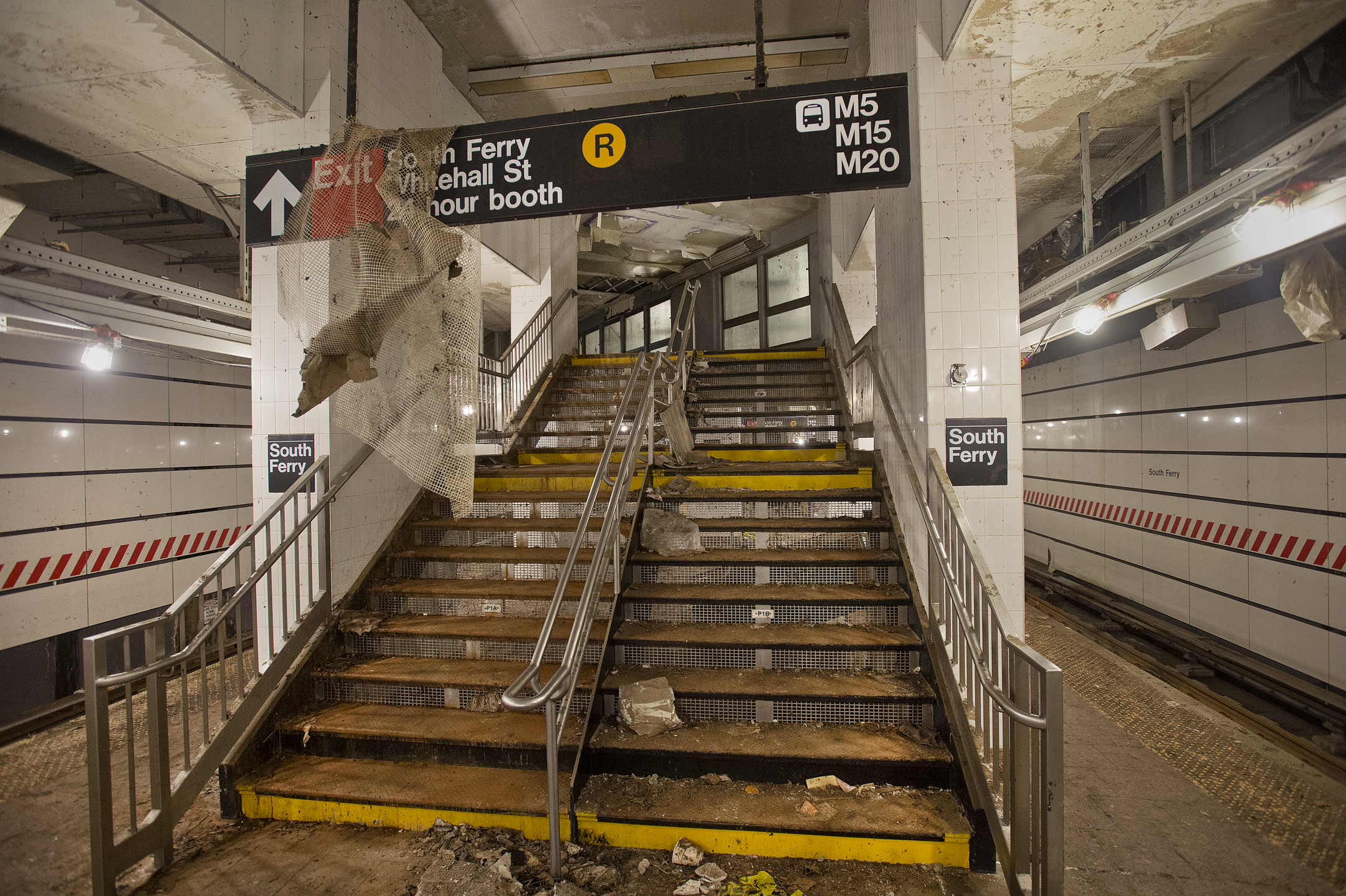 Damage to the South Ferry 1 subway station was extensive. The rebuilding effort will take an estimated $600 million and as long as three years, and engineers are studying whether some of the vital electrical infrastructure can be moved to higher ground to guard against future flooding. Wynton Habersham, chief electrical officer for MTA New York City Transit's subway system, offered a look at the latest status of the station on January 17, 2013. Photo: Metropolitan Transportation Authority / Patrick Cashin.